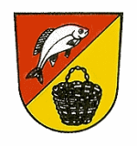 Coat of Arms of Sand am Main